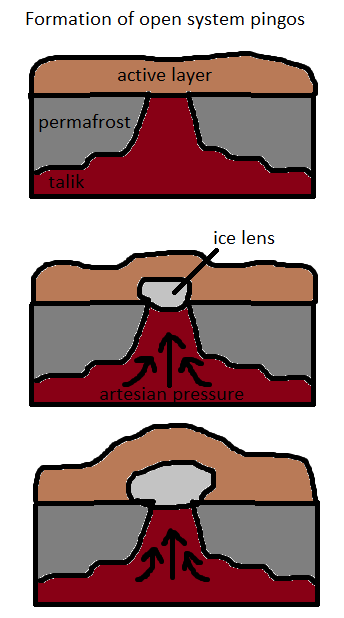 Figure adapted from E. Farrell.